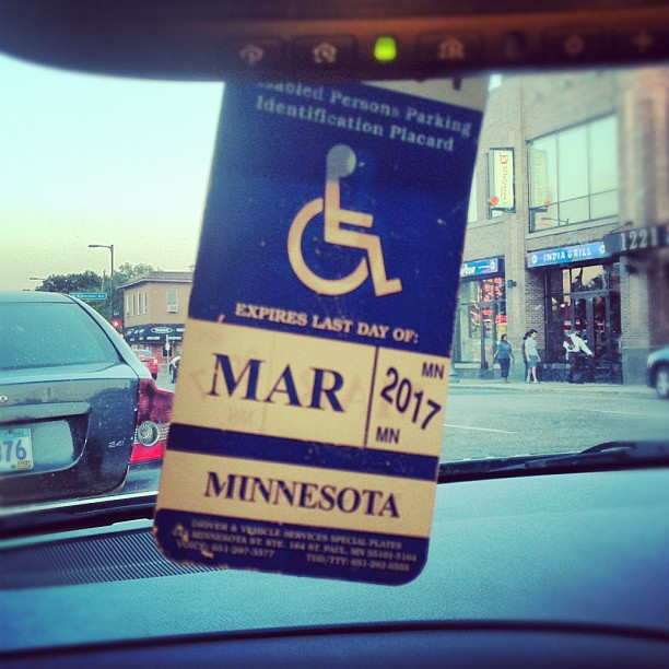 Handicapped / disabled hang tag, Minnesota